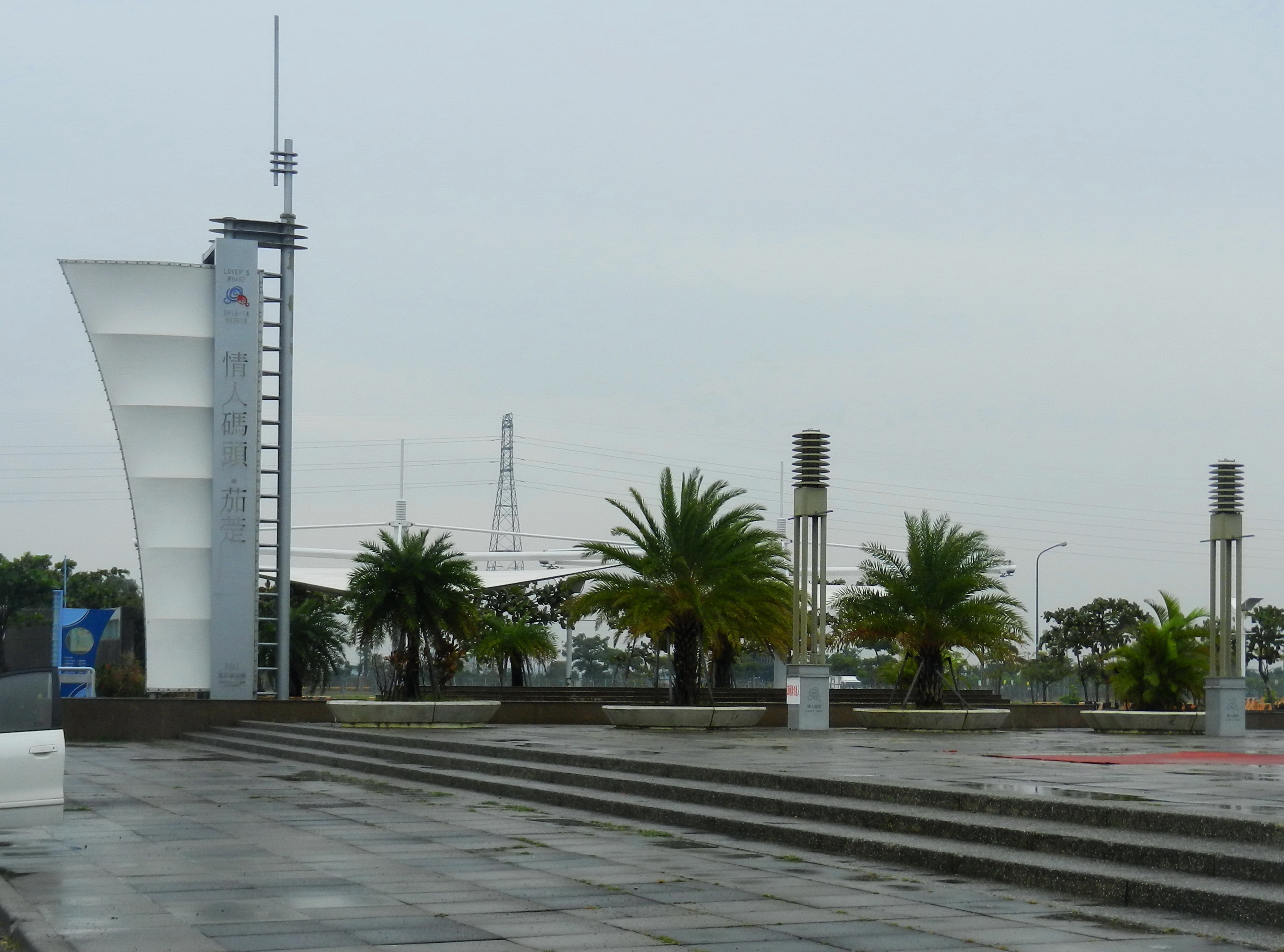 Qieding Lovers` Wharf 茄萣情人碼頭